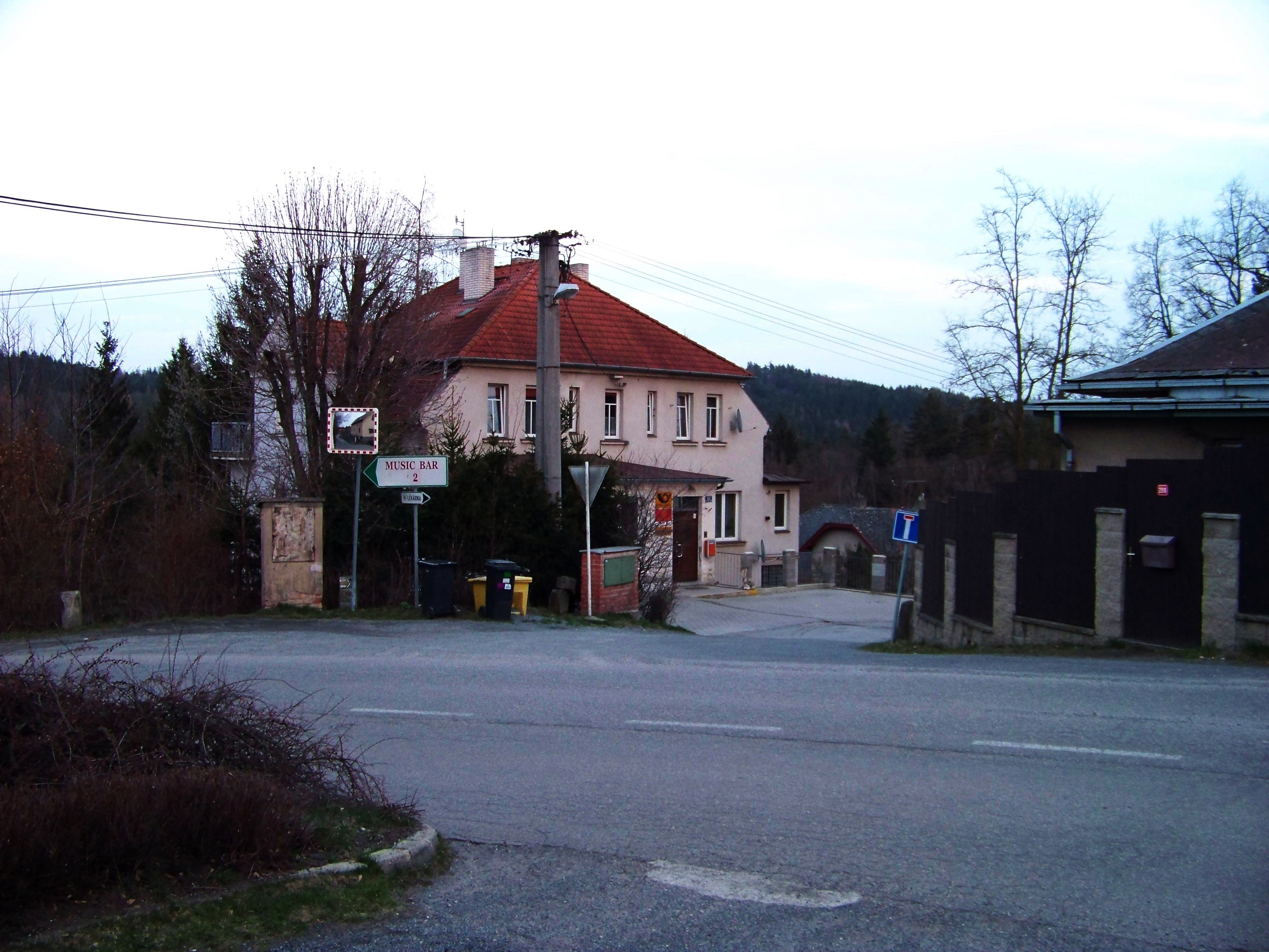 Senohraby, Prague-East District, Central Bohemian Region, the Czech Republic. Hlavní and Sázavská street, Sázavská 101, a post office. - OpenStreetMap(Info)